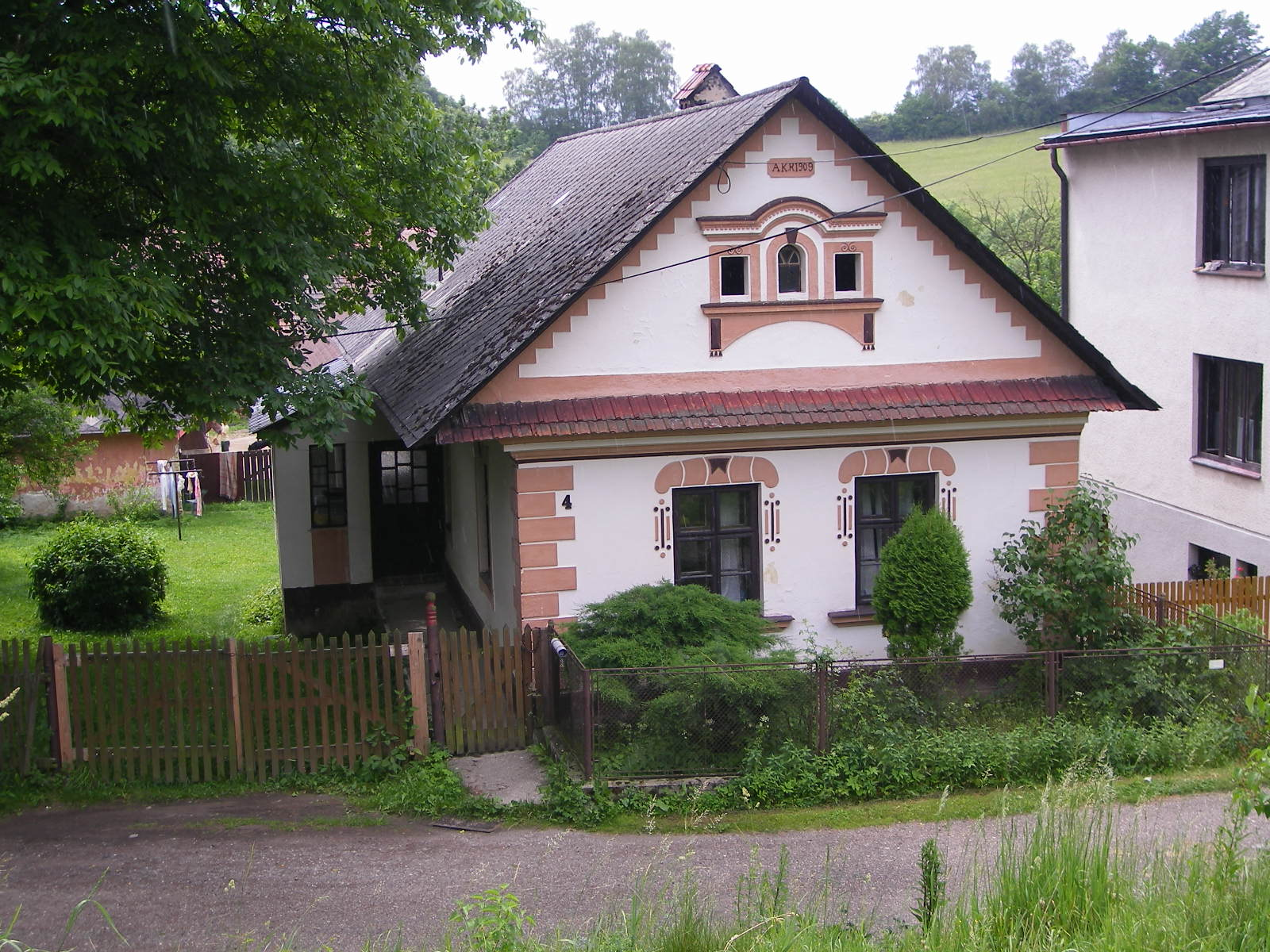 Dolný Kalník - traditional house built in 1909